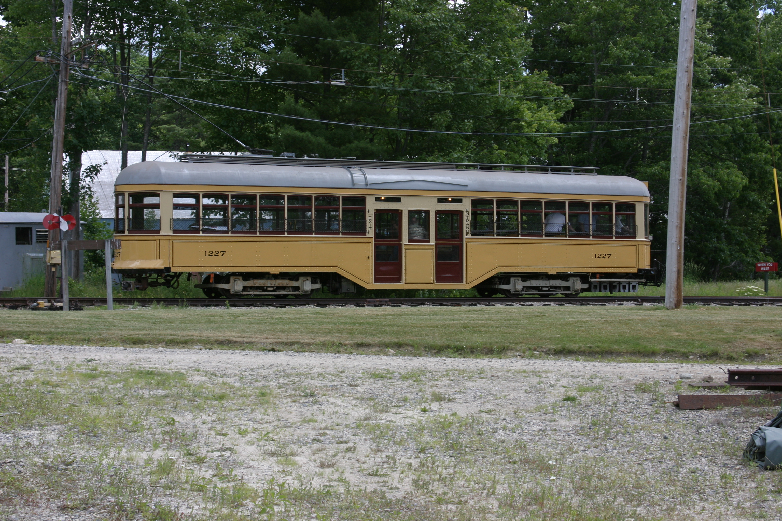 Cleveland Railway #1227 at the Seashore Trolley Museum, in Kennebunkport, Maine. No. 1227 was built in 1915 by the Kuhlman Car Company, which by that time was a subsidiary of the J. G. Brill Company.